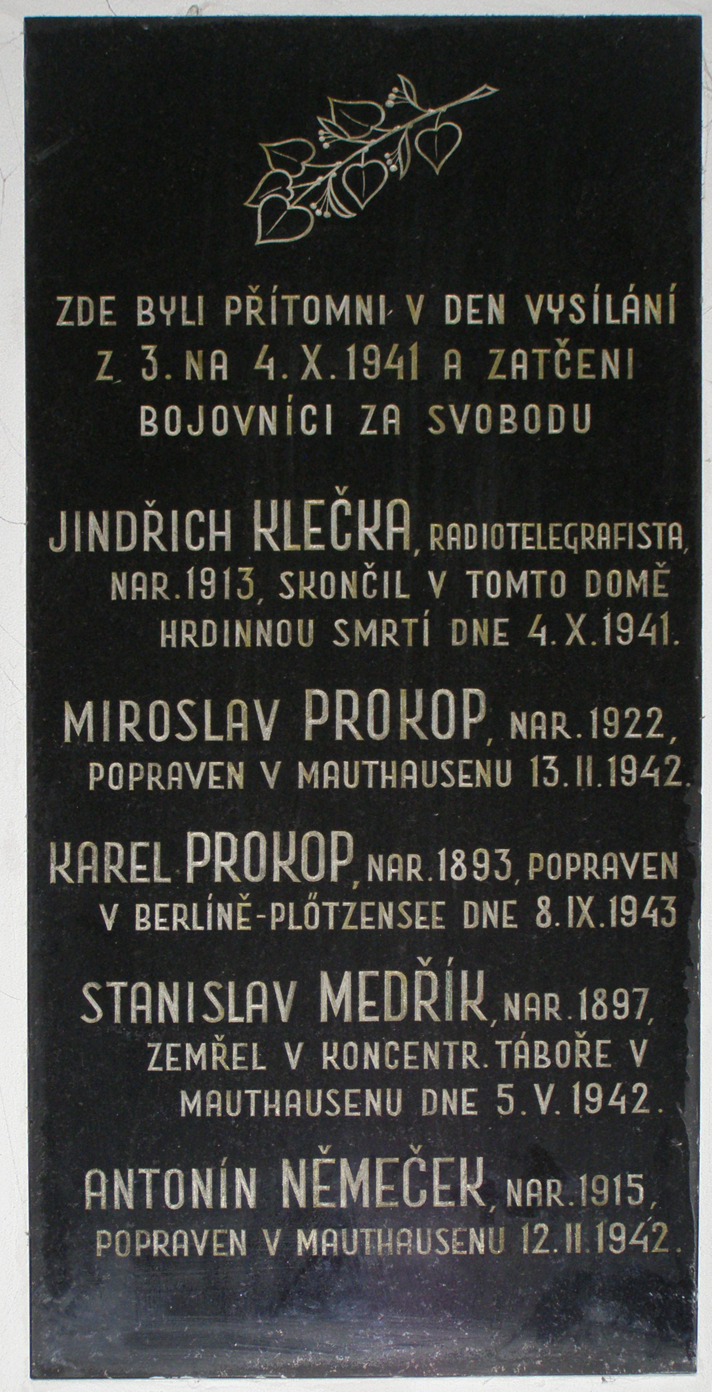 A memorial plaque in honor of the Gestapo murdered and tortured heroes of Jinonice excise during the Protectorate